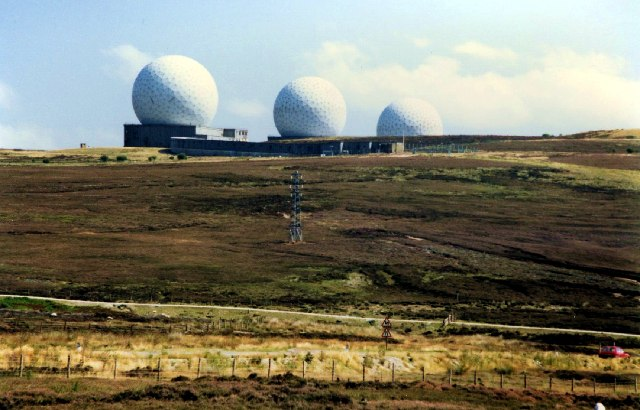 RAF Fylingdales pre-1992. Opened in 1962, RAF Fylingdales is primarily a ballistic missile early warning station, with a secondary duty of detecting, reporting and tracking satellite launches and orbits. The famous "golf ball" radomes seen here were replaced between 1989 and 1992 by the pyramid - like Solid State Phased Array Radar (SSPAR), which became operational in October 1992. A 'before' picture to go with the one already uploaded for this square. 47117